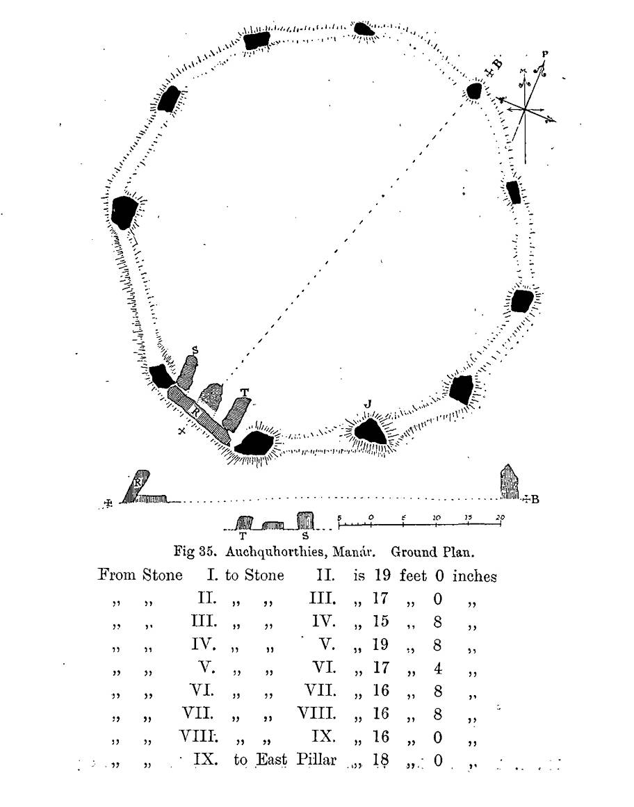 One of the diagrams in Frederick Coles 1900 paper "Report on the Stine Circles, Inverurie District". Plan of Easter Aquhorthies stone circle, Fred. Coles 1900